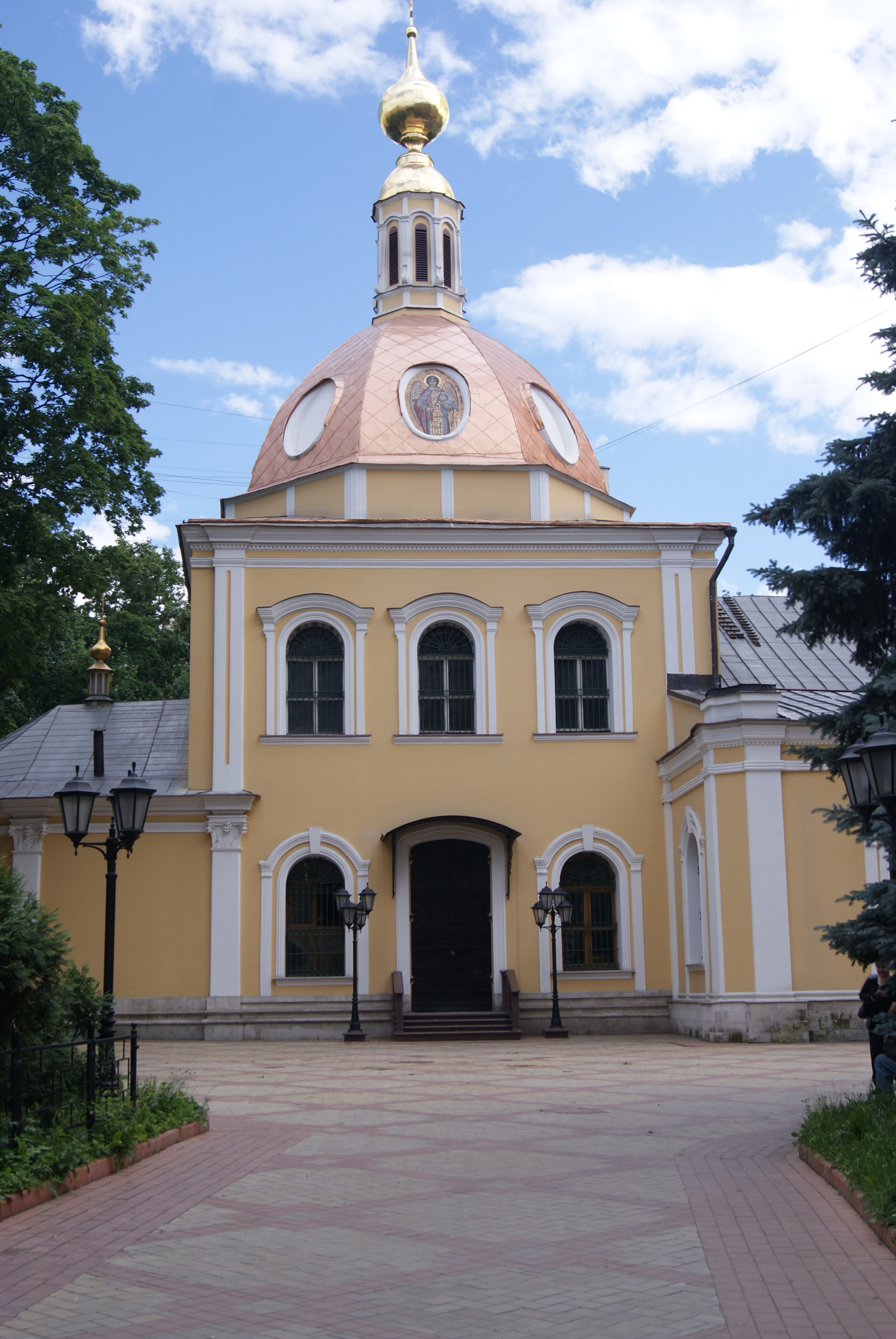 Built in 1736. Object of cultural heritage of the Russian Federation No. 7710382000.